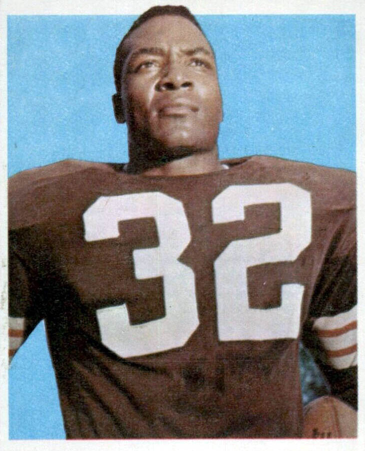 NFL player Jim Brown of the Cleveland Browns on a 1959 Topps football trading card